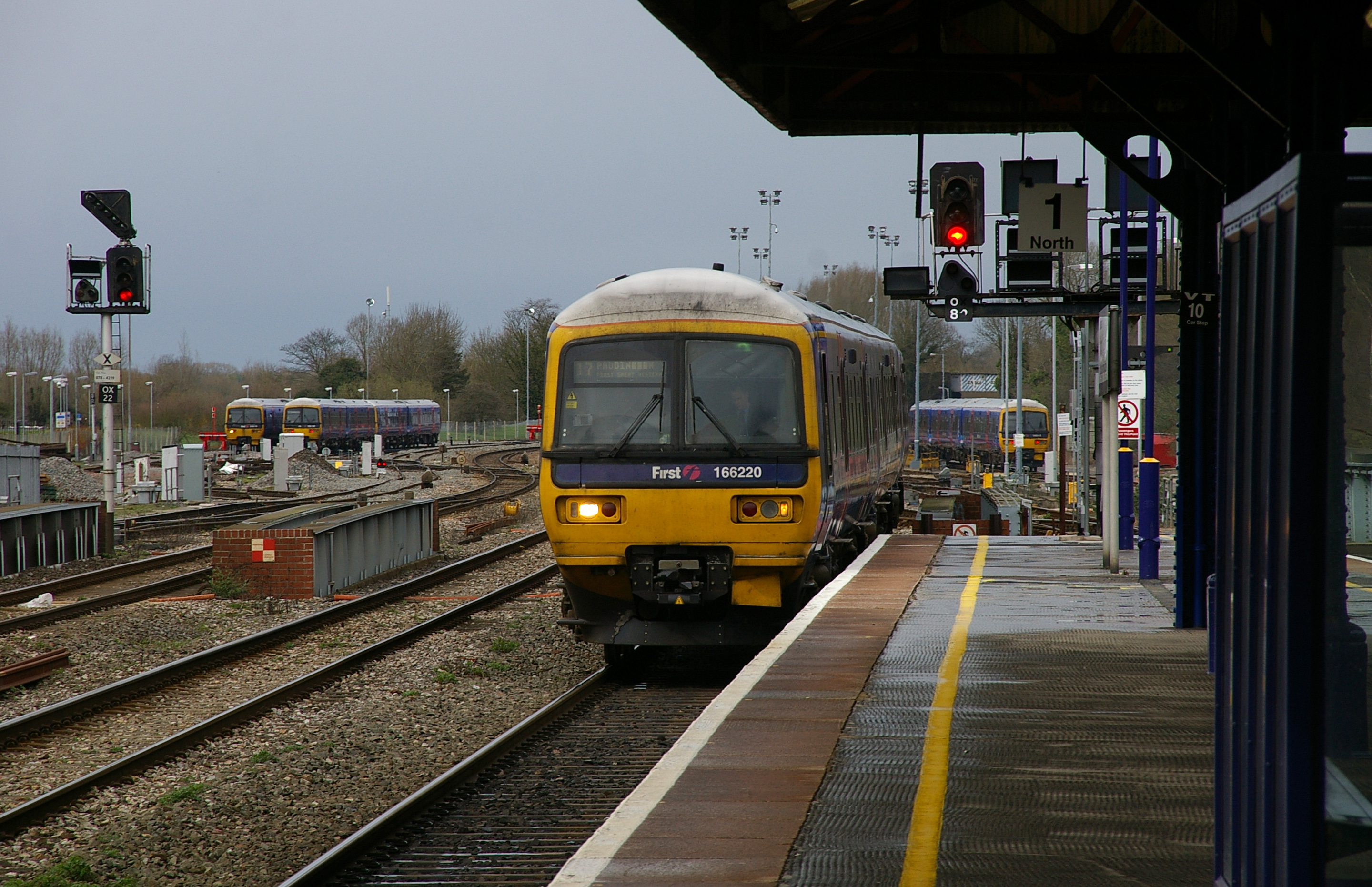 166220 pulls in to Oxford station with a service to London Paddington. In the background are stabled 165s.